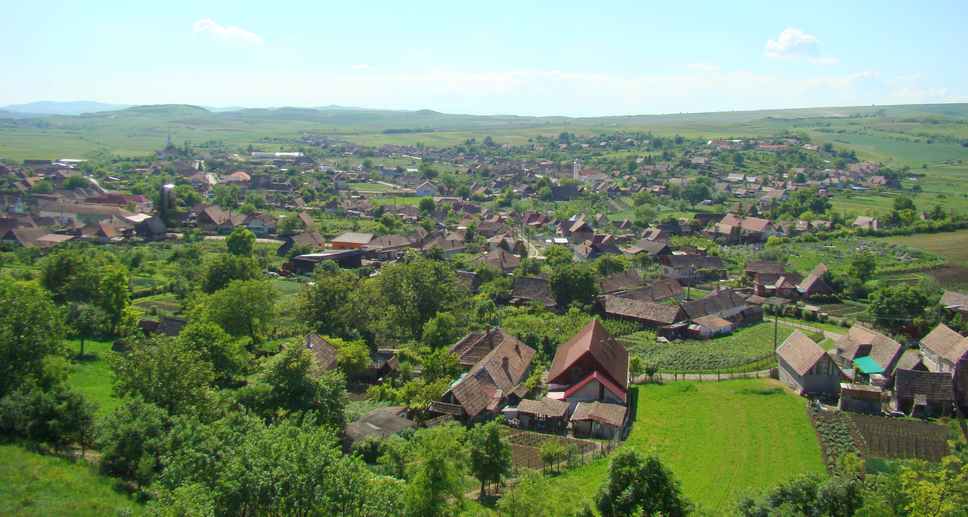 Sânmiclăuș, Alba county, Romania